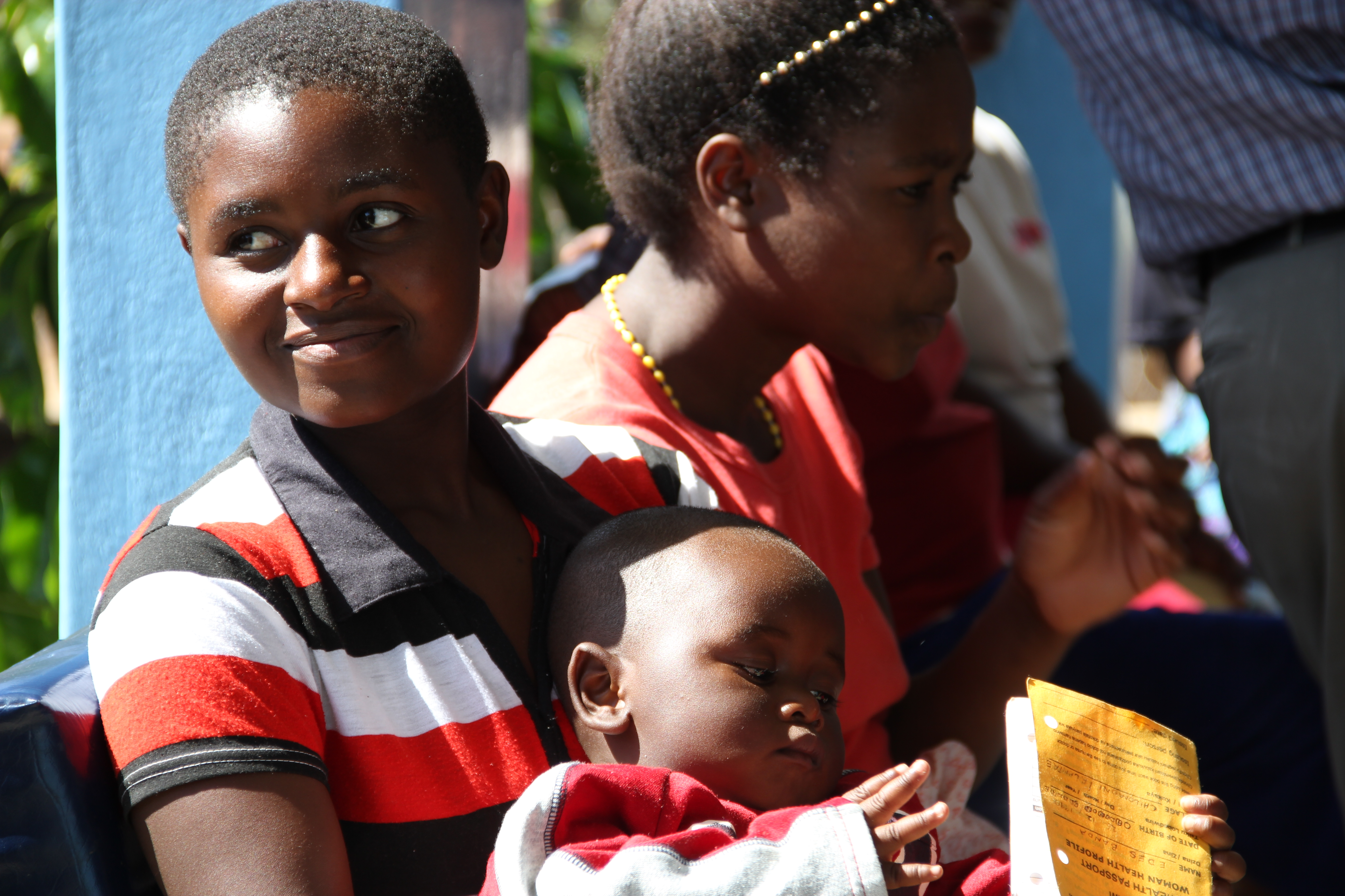 By 2020, if an additional 120 million women who want contraceptives could get them, this would mean 200,000 fewer women and girls dying in pregnancy and childbirth - that's saving a woman’s life every 20 minutes. Access to contraceptives would mean nearly 3 million fewer babies dying in their first year of life. On 11 July 2012 the UK Government and the Bill & Melinda Gates Foundation will host a groundbreaking summit to cut in half the current number of women and girls in the world’s poorest countries without access to contraception, but who wish to avoid pregnancy or space their children. Background On 11 July 2012 the UK Government and the Bill & Melinda Gates Foundation will host a groundbreaking summit to cut in half the current number of women and girls in the world’s poorest countries without access to contraception, but who wish to avoid pregnancy or space their children. Every woman and girl deserves the opportunity to to determine her own future. Contraceptives give the world's poorest women the power to decide if and when to have another child. Find out more at To follow the London Summit on Family Planning visit Picture: Lindsay Mgbor/Department for International Development Terms of use This image is posted under a Creative Commons - Attribution Licence, in accordance with the Open Government Licence. You are free to embed, download or otherwise re-use it, as long as you credit the source as Lindsay Mgbor/Department for International Development'.